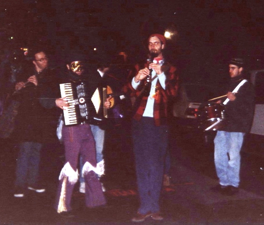 New Orleans Carnival: "New Orleans Klezmer All Stars" band, Krewe du Vieux parade - 1991 I think..